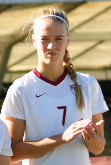 Pregame FSU Soccer vs BC